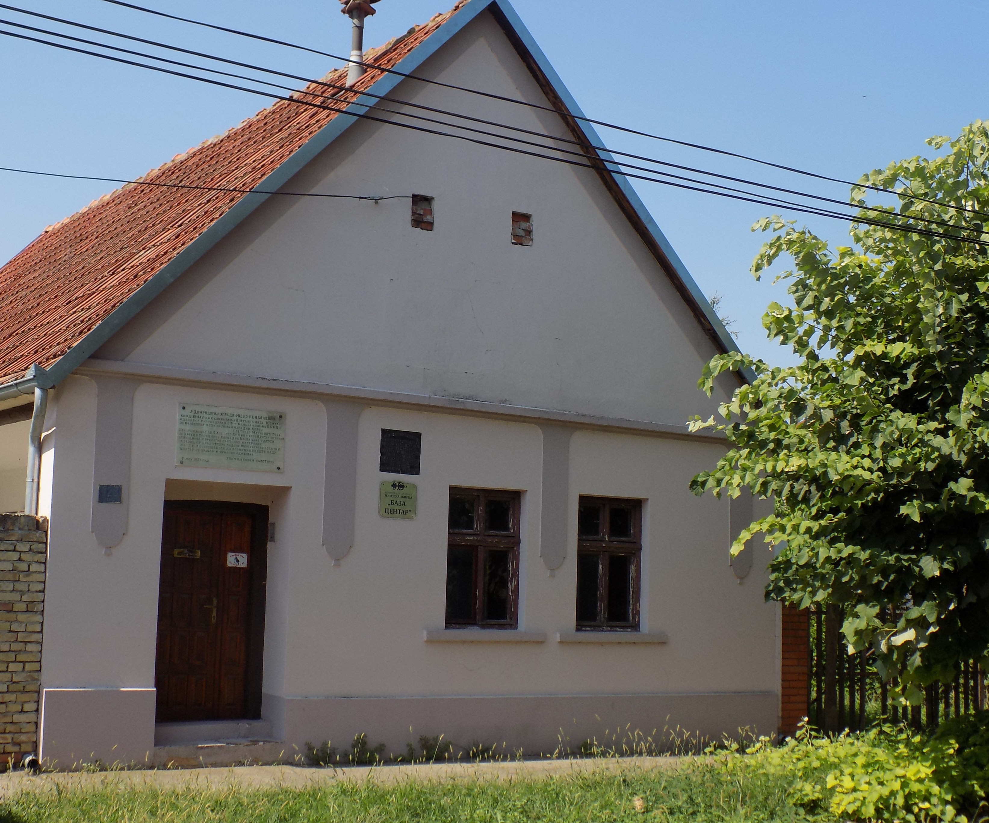 Front of the house Baza "Centar"